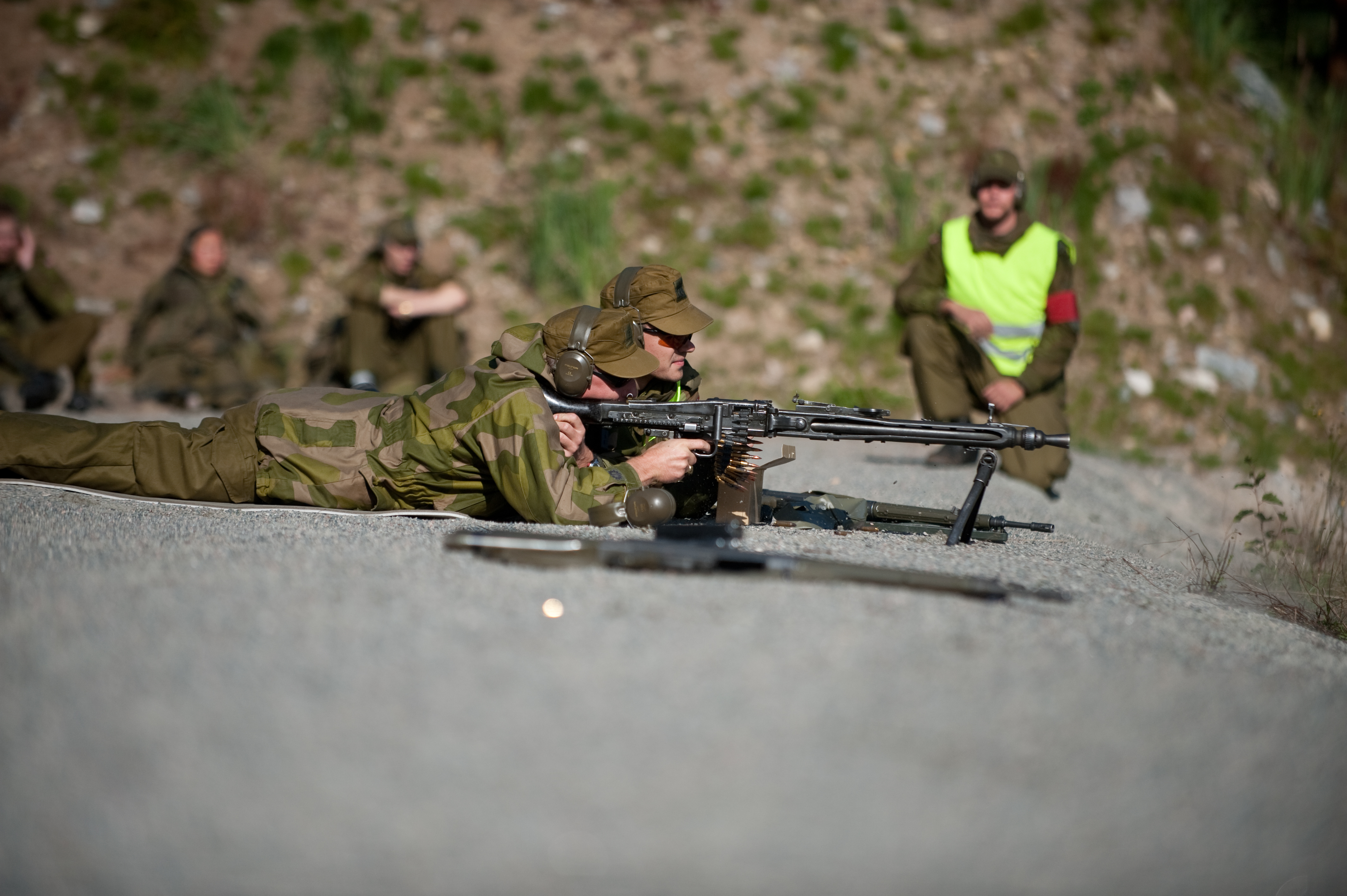 Norwegian soldier with a MG3 machine gun.